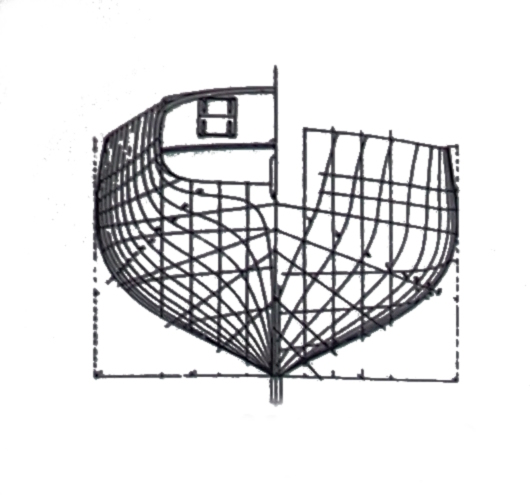 Aft and bow elevation of Prince de Neufchatel (1813), as recorded by her British captors in 1814.